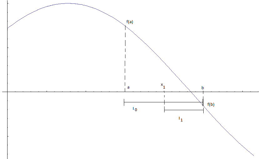 example bisection